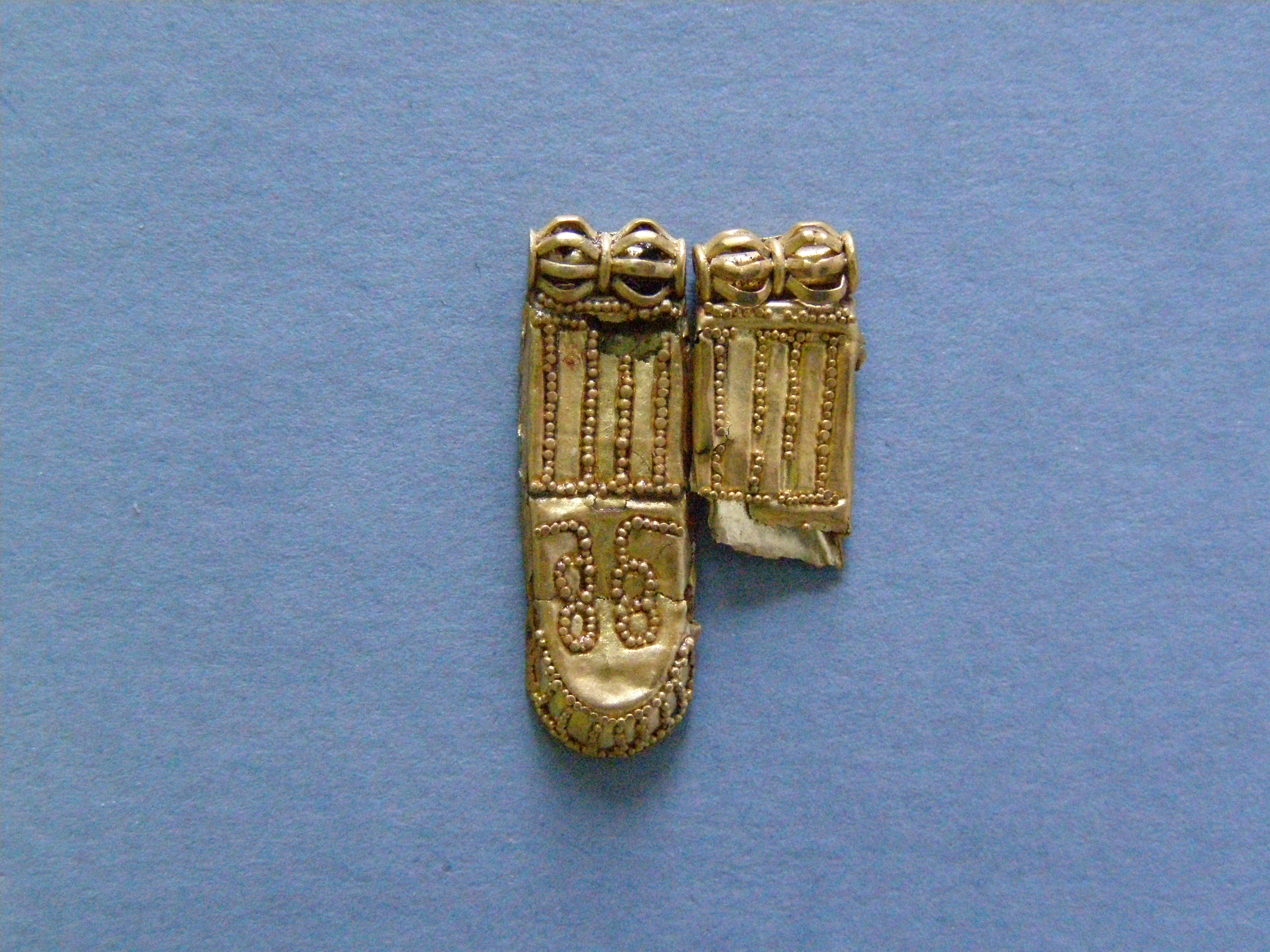 Pieza de diadema de la tumba 78, excavada por Fernando Fernández de El Raso, Candeleda. Museo de Ávila.